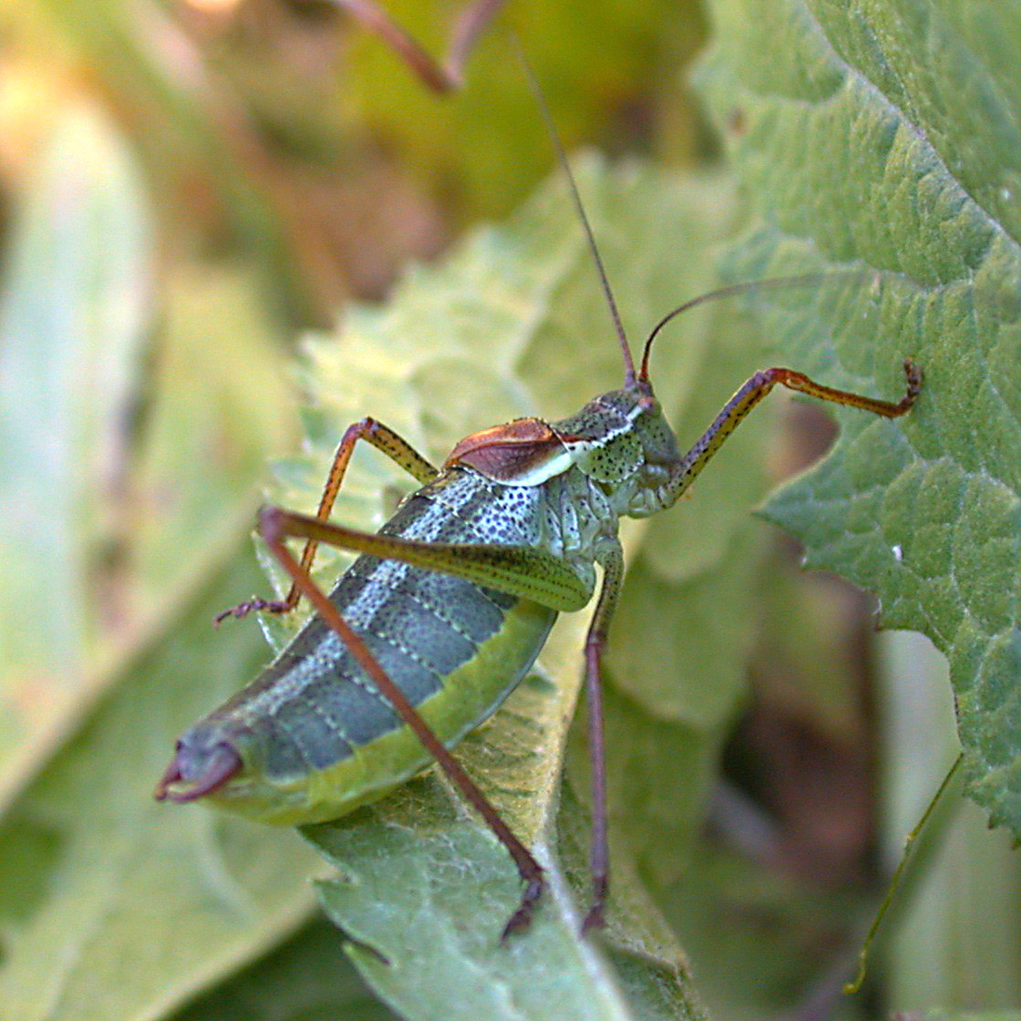 Presumably Isophya spec., family Phaneropteridae, taken August 16, 2004 in Altay Mountains by User:Victordk. Note left rear leg missing.